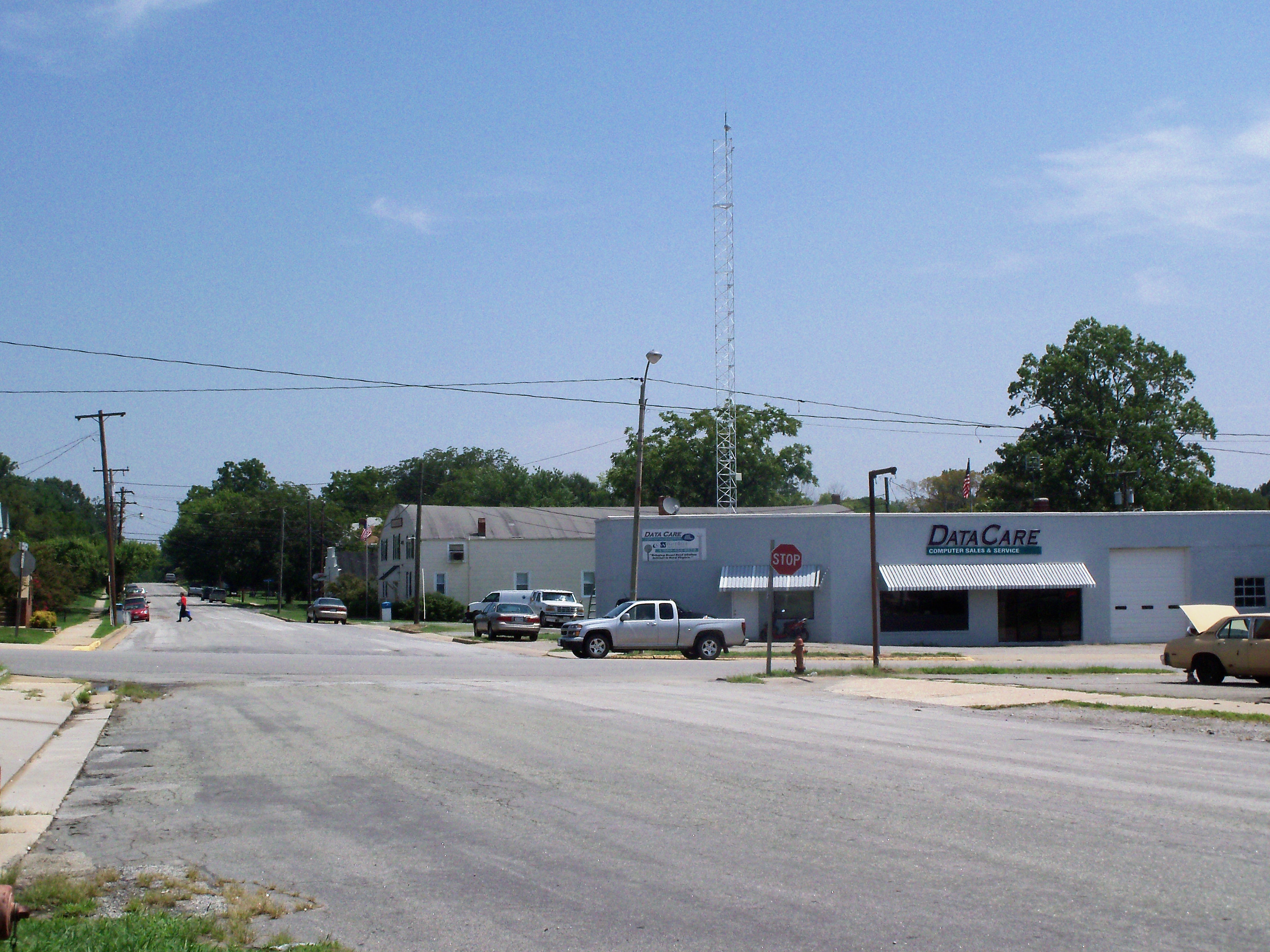 5th Street